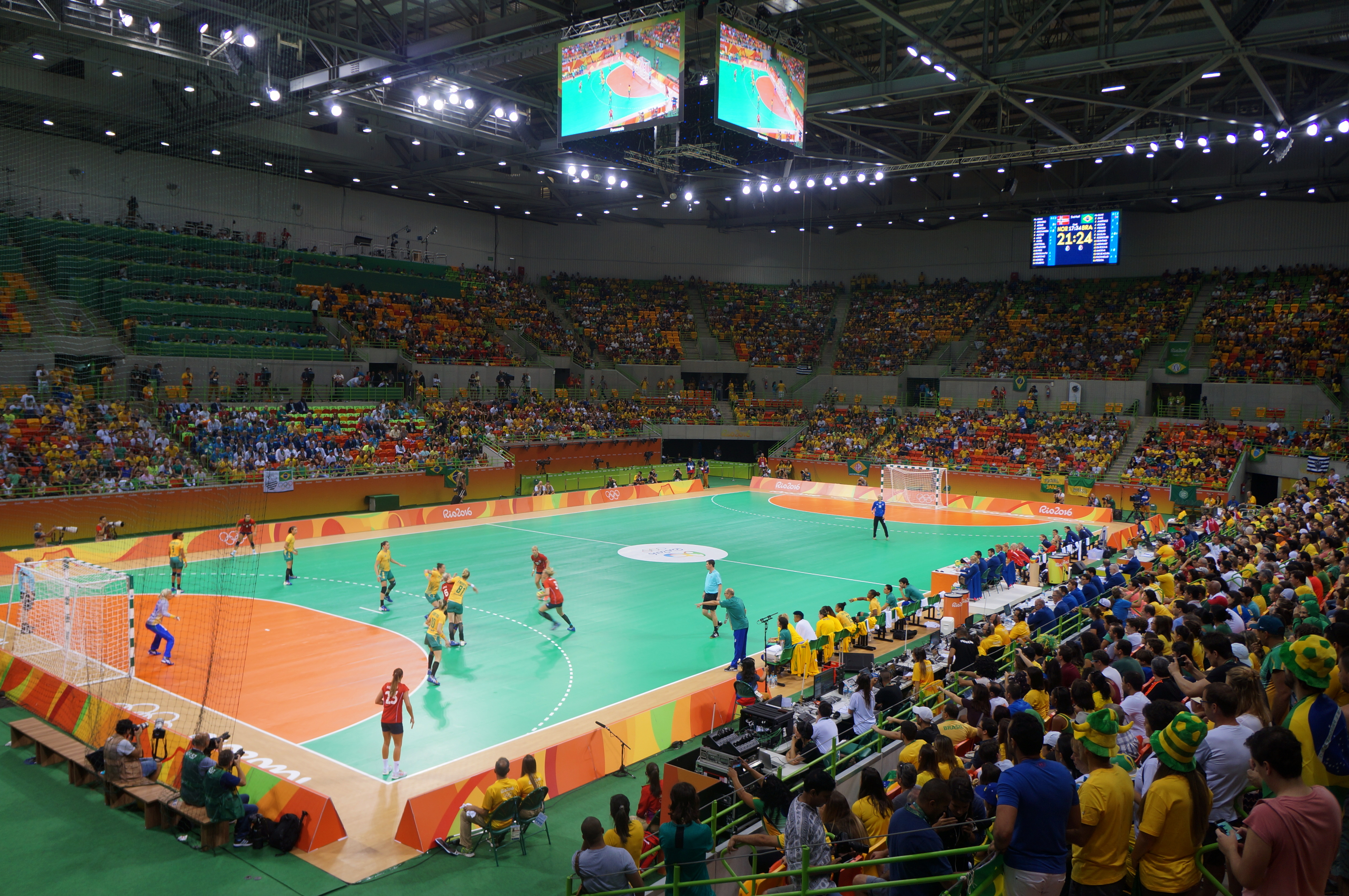 Future Arena - Barra Olympic Park - Handball Rio2016 - Norway 28 vs 31 Brazil